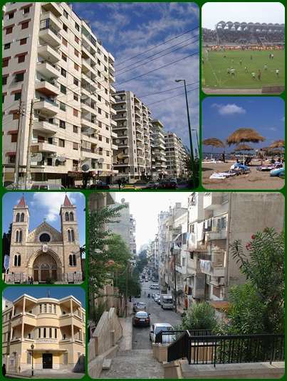 A collage of Latakia, western Syria.